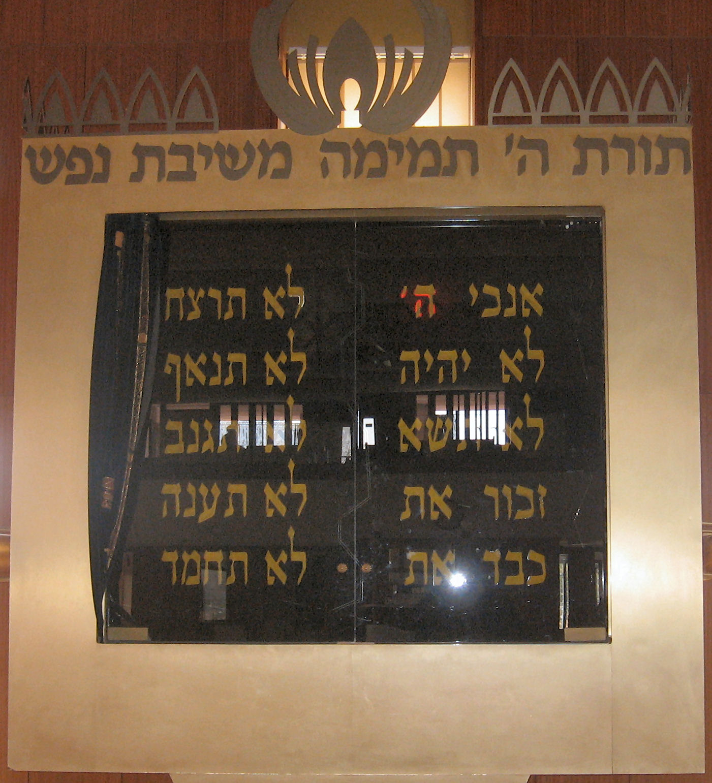 Synagogue_of_new_SHILO as MISCAN 1